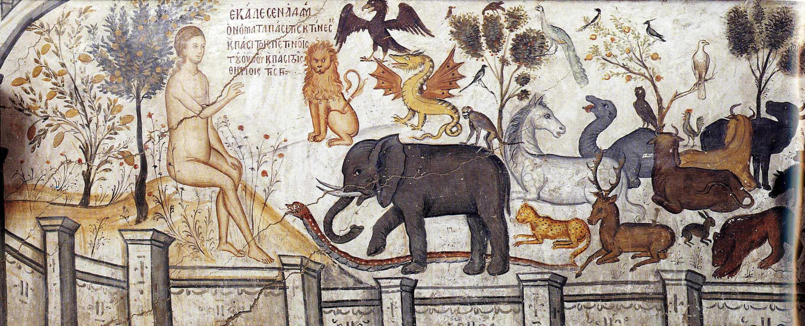 Agios Nikolaos Anapafsas